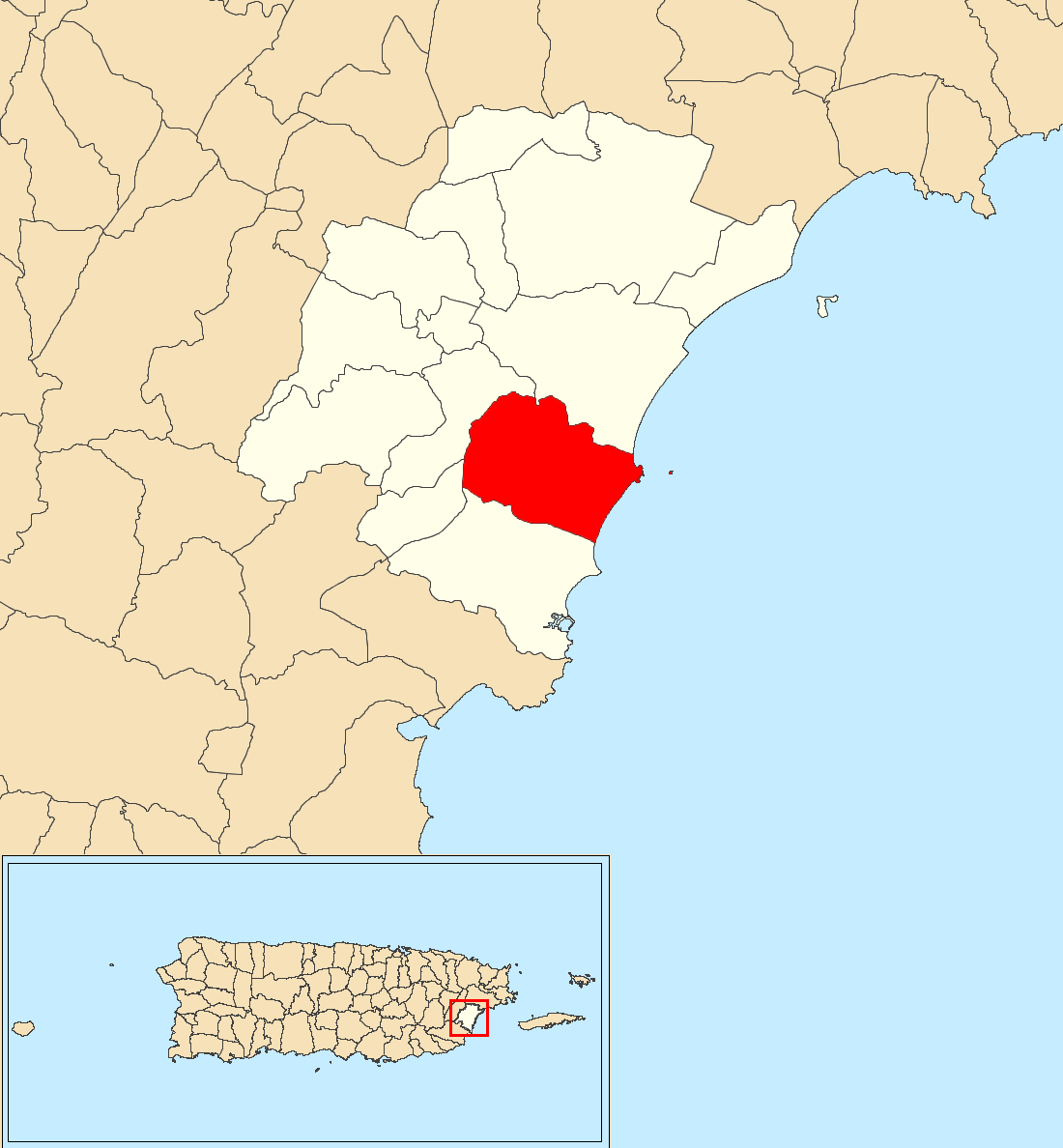 Buena Vista, Humacao, Puerto Rico locator map